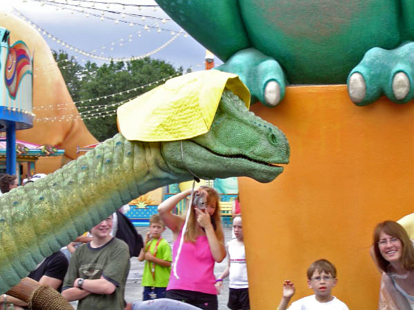 Me, Lucky the Dinosaur (animatronic)